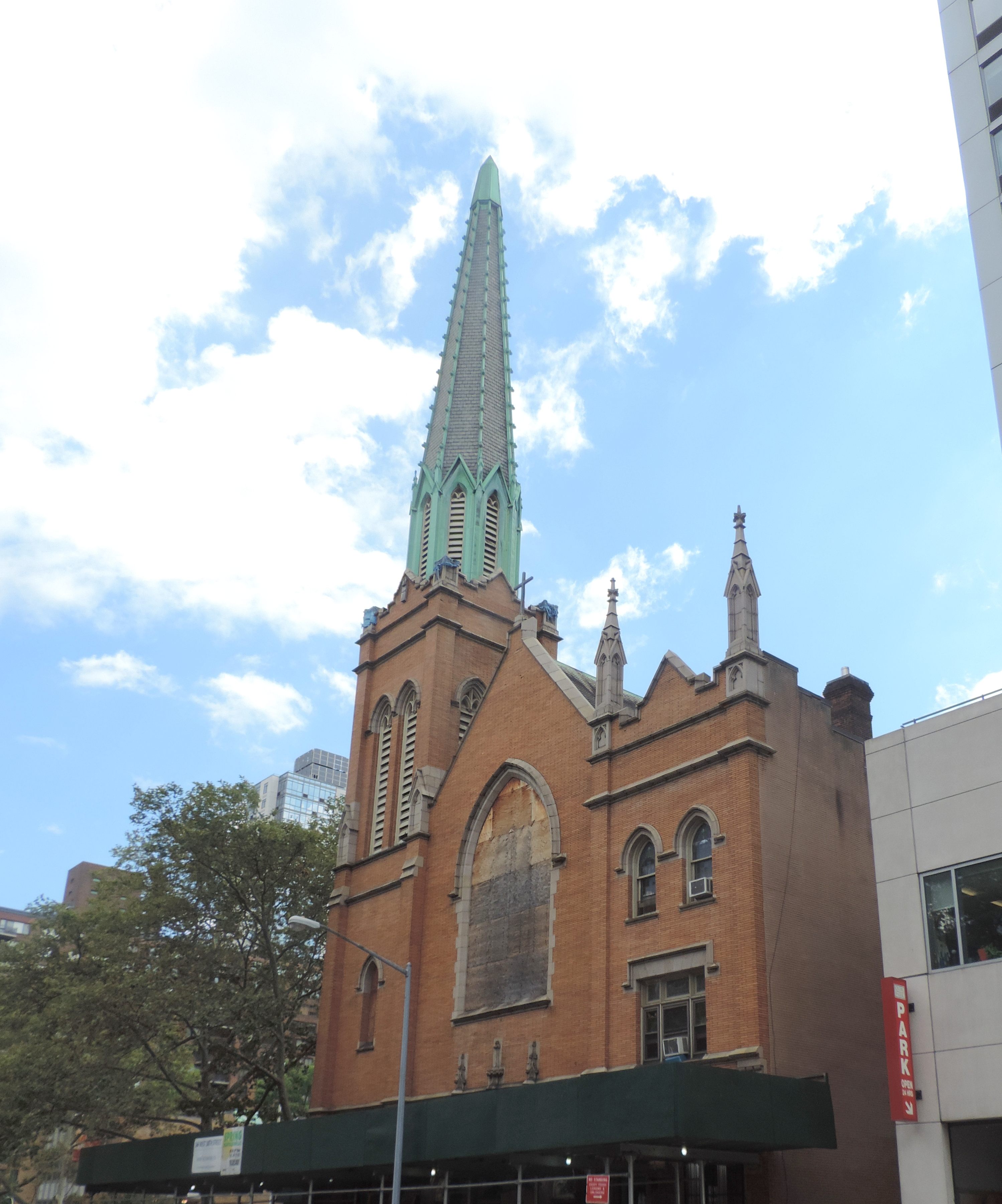 Looking south across 100th Street at Trinity Lutheran on a mostly cloudy day